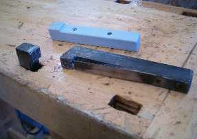 Bench dogs (or are they planing stops? - please help)